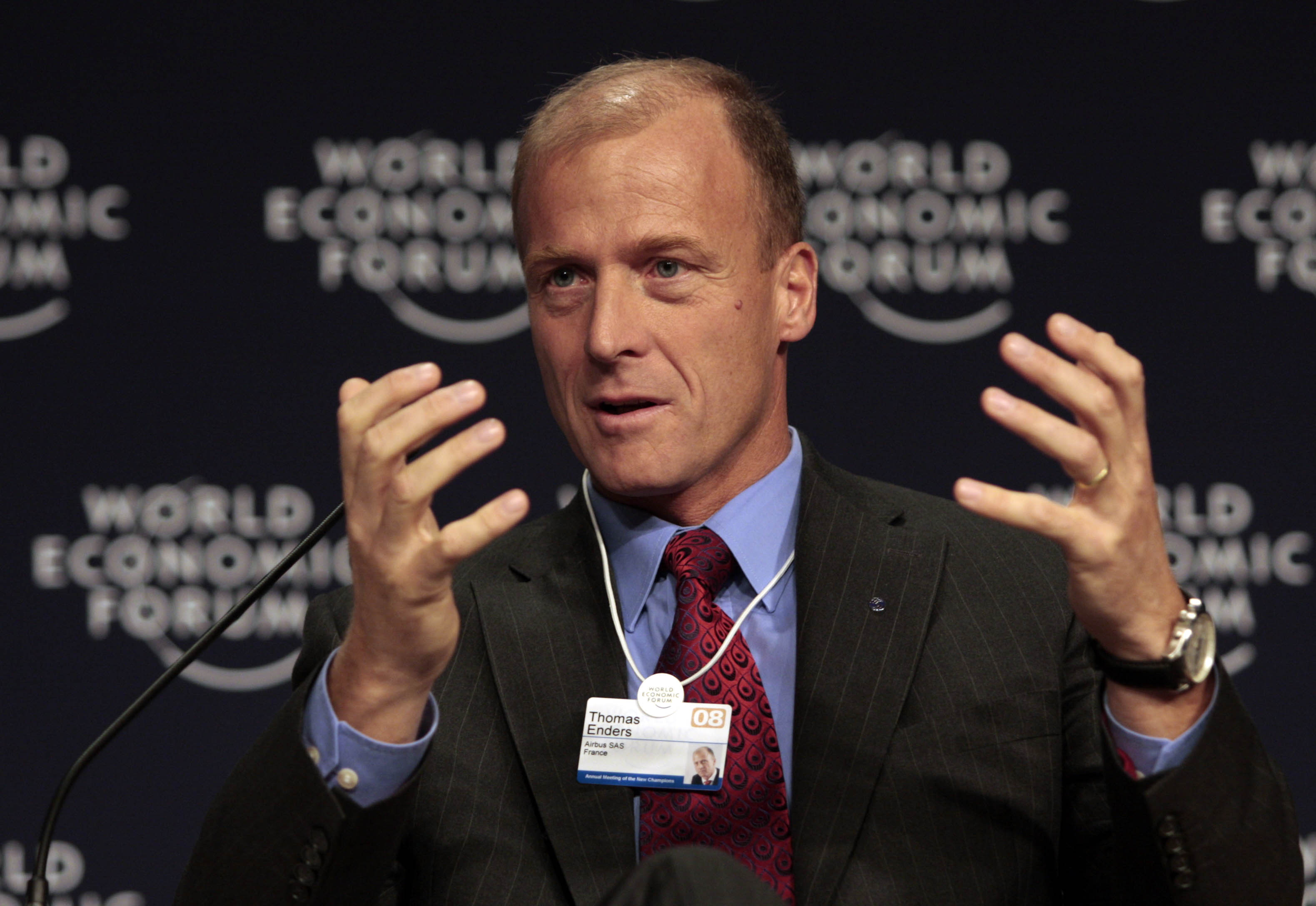 TIANJIN/CHINA, 26SEPT08 - World Economic Forum Annual Meeting of the New Champions summit mentor Thomas Enders, Chief Executive Officer of Airbus SAS, speaks during a press conference in Tianjin, China 26 September 2008